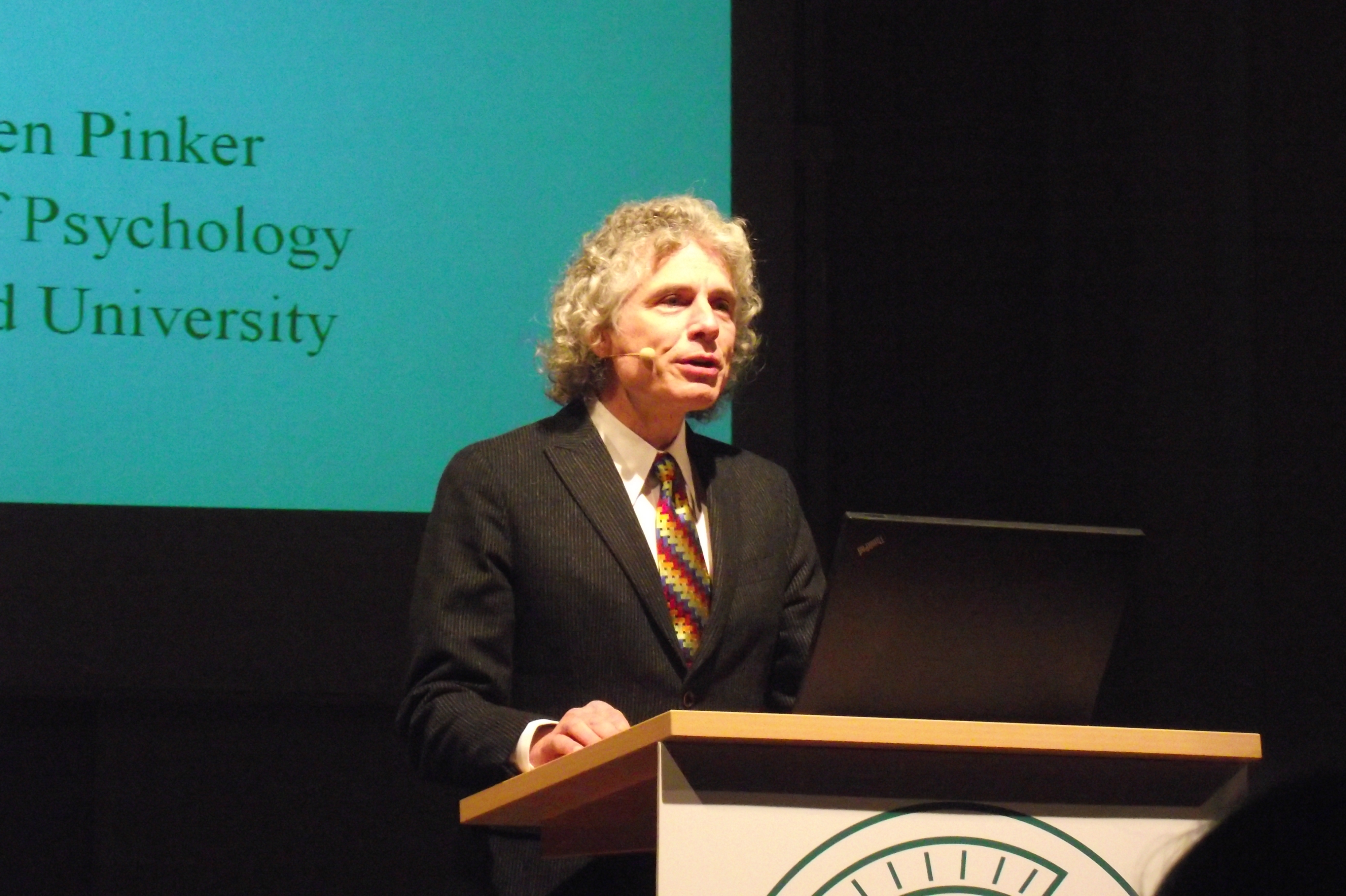 Steven Pinker at the Göttinger Literaturherbst, 10/10/2010 Göttingen, Germany.